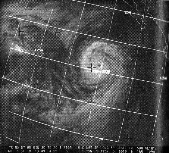 Hurricane Liza off the Baja California peninsula on August 31, 1968.